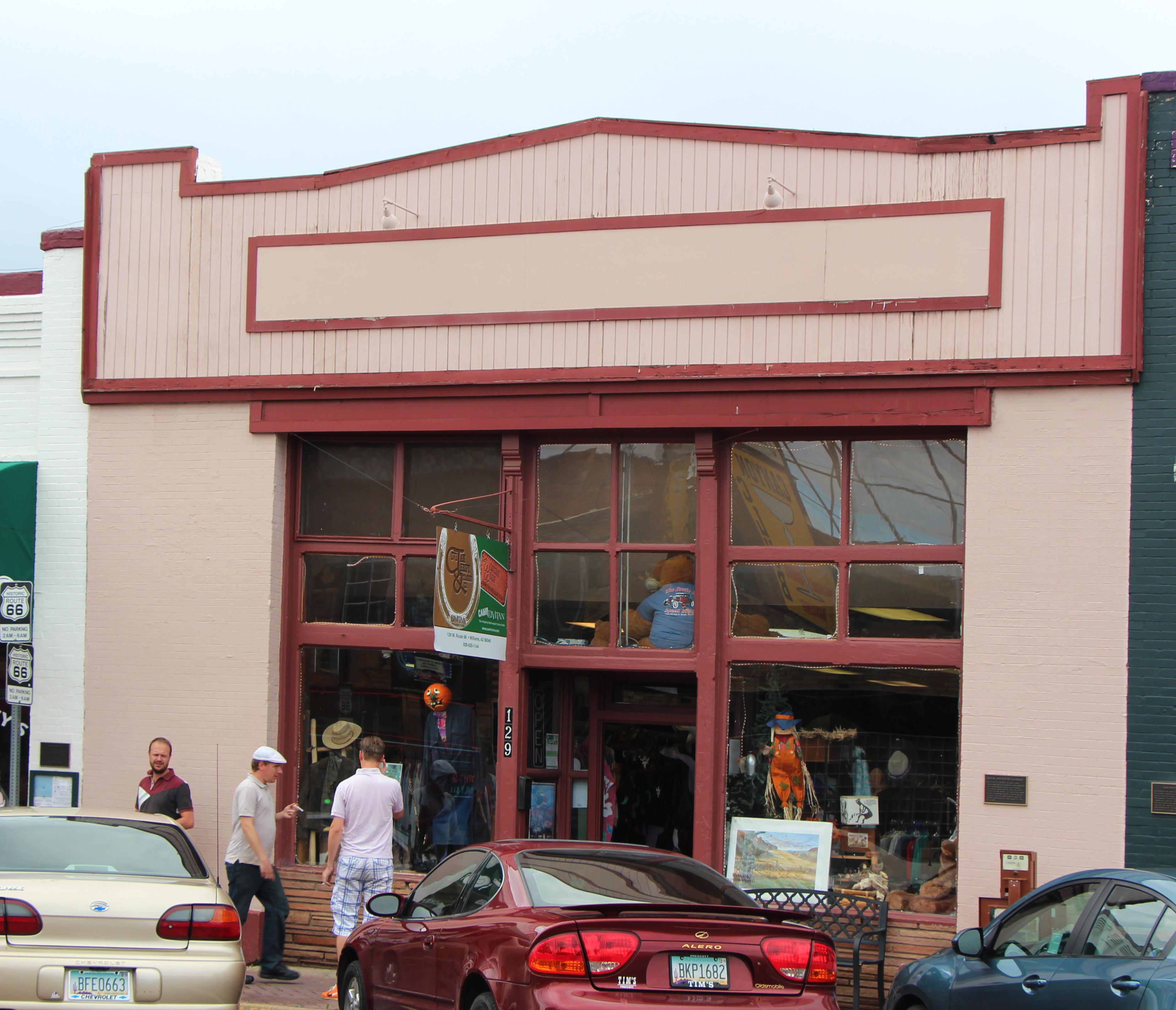 General Store, 129 W. Route 66, Williams, AZ